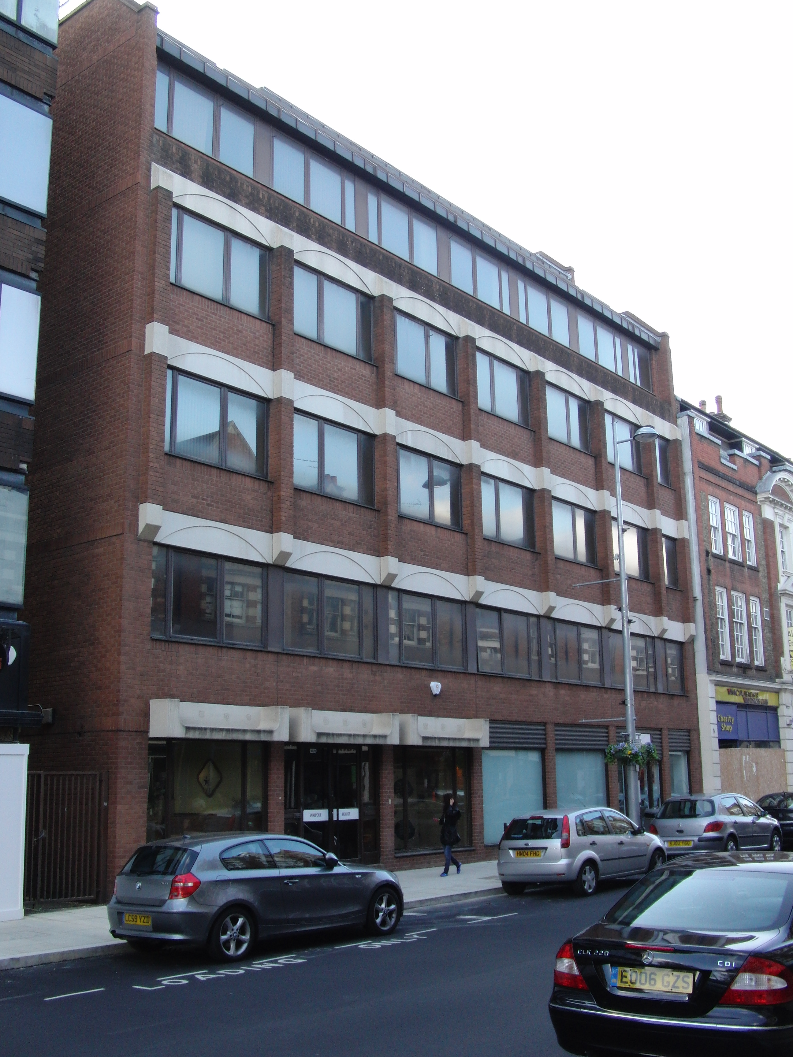 The Thames Valley University (TVU) Walpole House in Ealing, London.